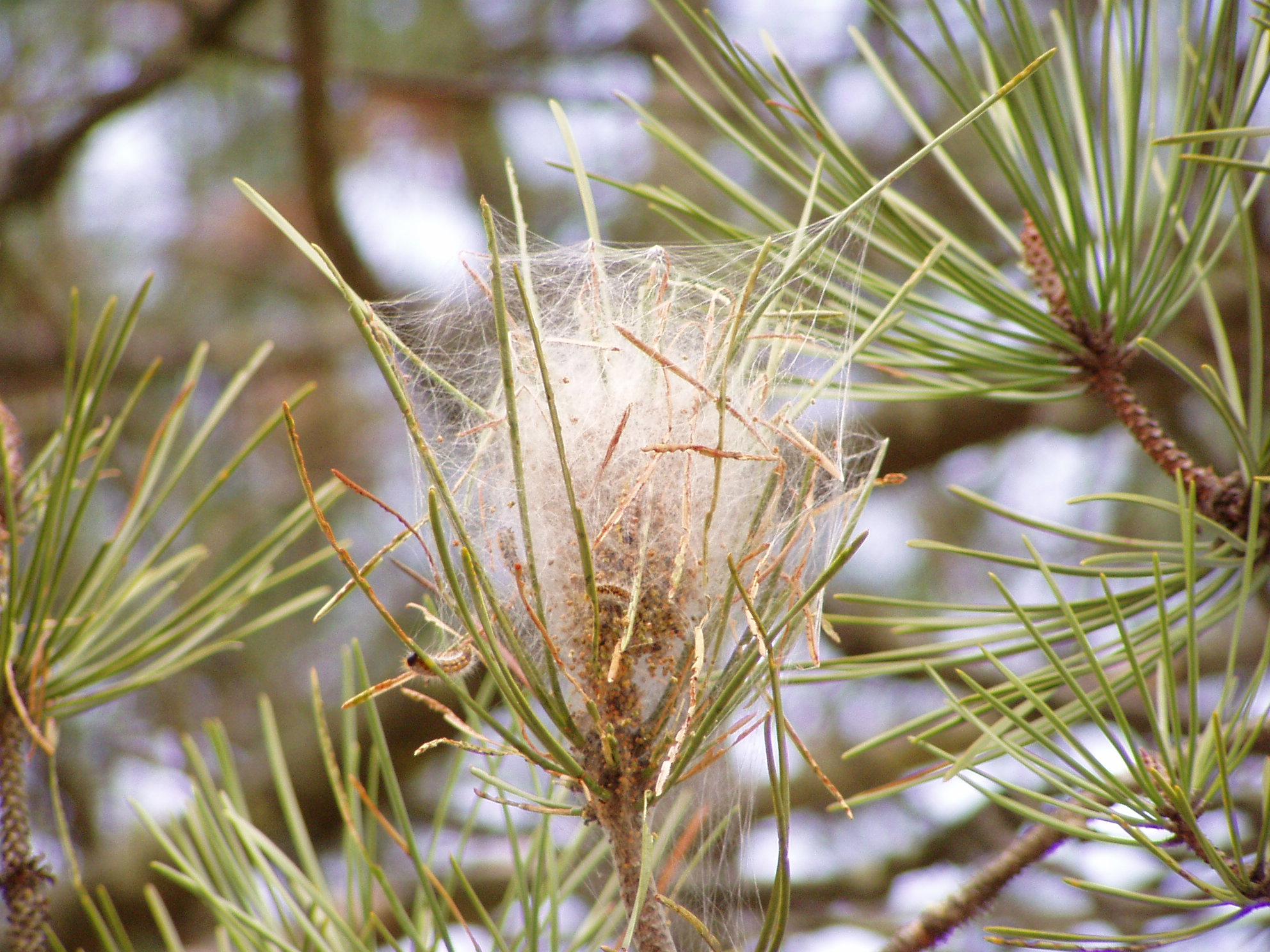 Pine Processionary catterpillars weave a silk nest (here on Maritime Pine Pinus pinaster) to take shelter from predators during daytime.